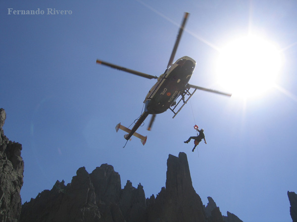 Rescate en Montaña con helicóptero